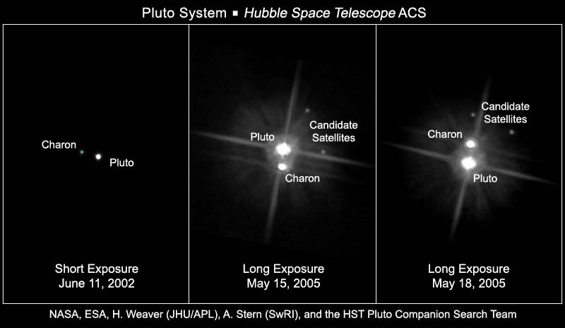 These Hubble Space Telescope images, taken by the Advanced Camera for Surveys, reveal Pluto, its large moon Charon, and the planet's two new putative satellites. In the short-exposure image [left], taken June 11, 2002, the candidate moons cannot be seen. They do, however, appear in the middle and right-hand images. Longer exposure times were used to take these images. Pluto and Charon are overexposed in these images, causing the bright streaks or "blooms" that emerge vertically from them. The candidate moons are not overexposed because they are thousands of times less bright than Pluto and Charon. In these unprocessed images, various optical artifacts of the Advanced Camera for Surveys system are visible, such as the radial spokes of light caused by the telescope's optics. The enhanced-color images of Pluto and Charon were constructed by combining images taken in filters near 475 nanometers (blue) and 555 nanometers (green-yellow). The images of the new satellites were taken in a single filter centered near 606 nanometers (yellow), so no color information is available for them.